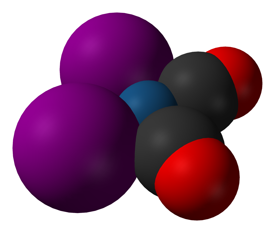 Space-filling model of the dicarbonyldiiodoiridium(I) complex, [Ir(CO)2I2]−.